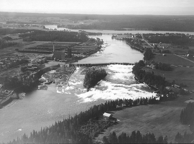 Aerial photograph of Hissmofors pulp factory and hydroelectric plant